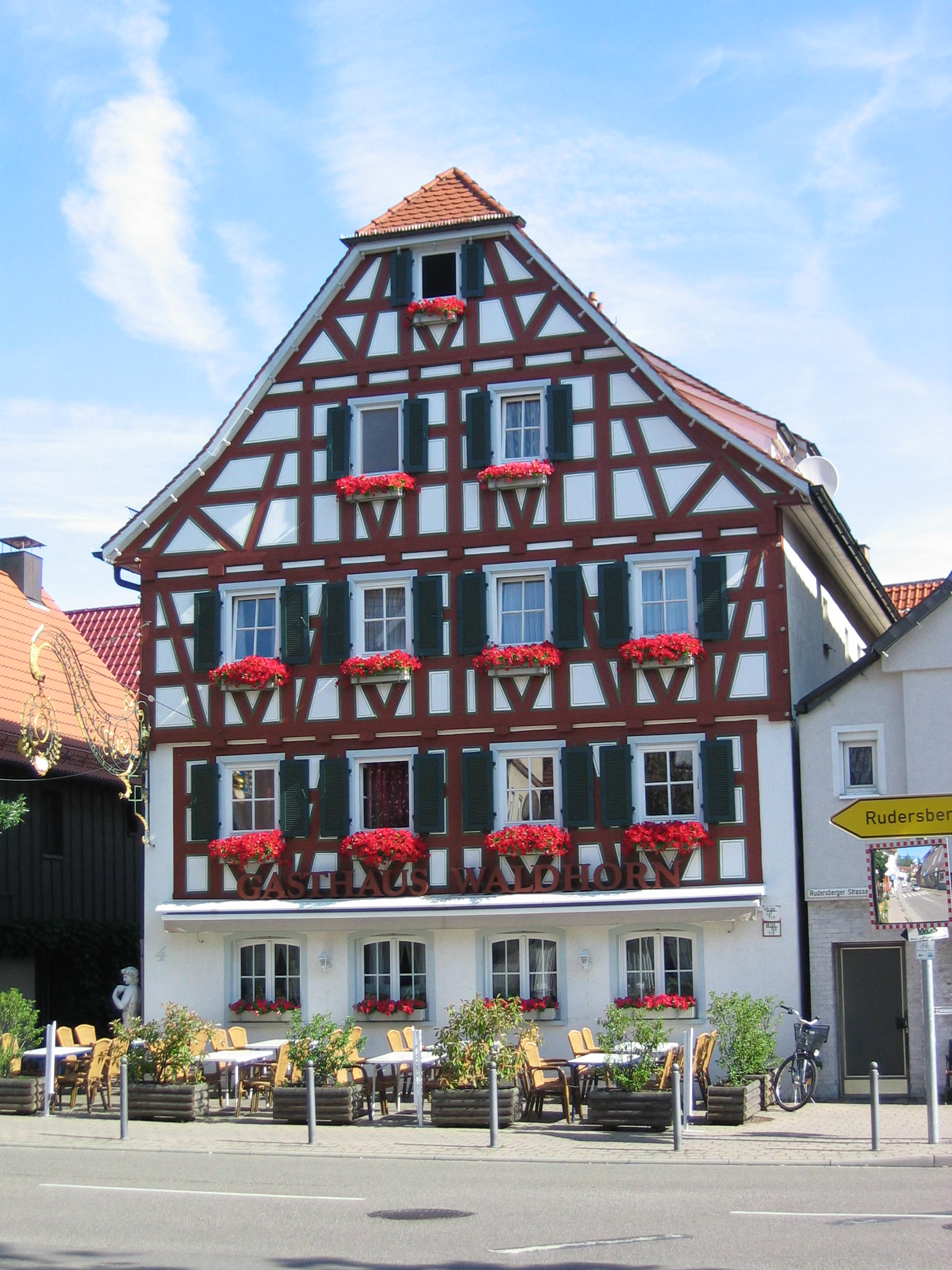 German style hotel "Gasthaus Waldhorn" in Welzheim, Baden-Württemberg, Germany